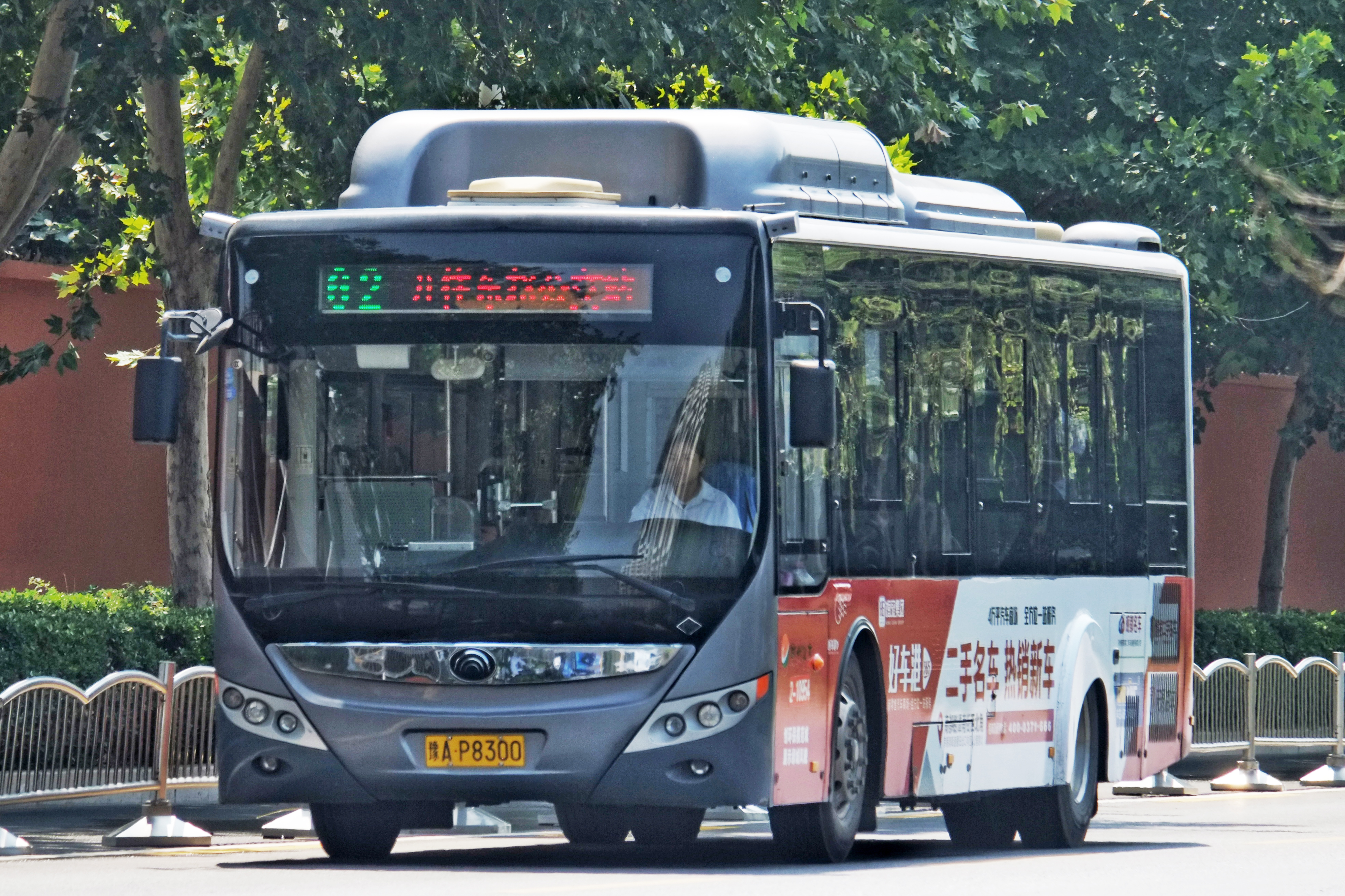 Yutong ZK6105CHEVNPG4 on Zhengzhou Bus Route 62